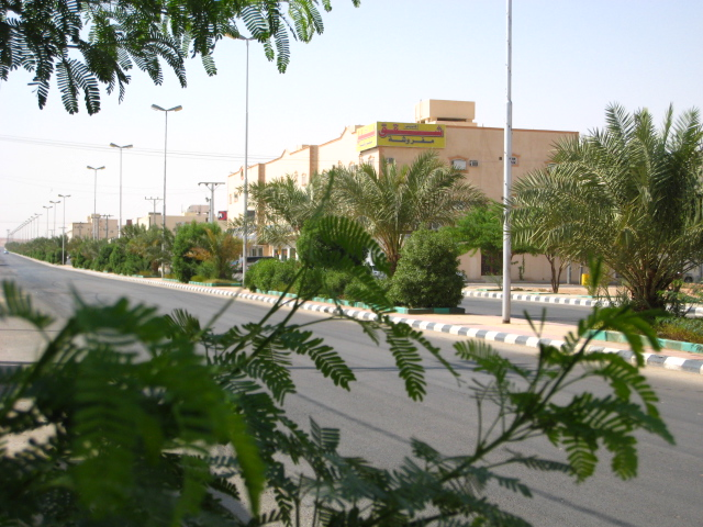 Nobody here??!!